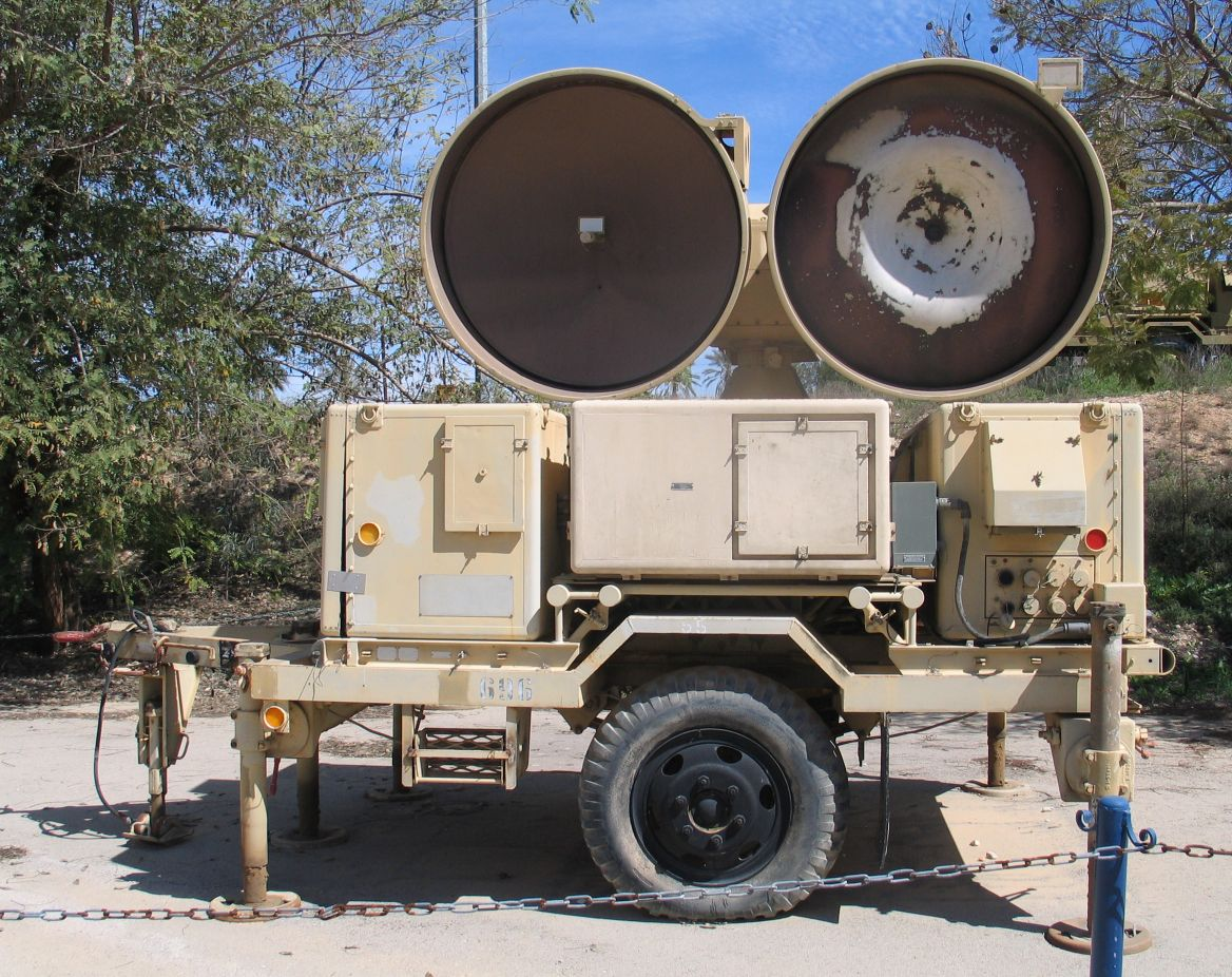 Description: HPI - High Power Illuminator doppler Radar - target tracking, illumination and missile guidance ( AN/MPQ-33/39). Radar of MIM-23 Hawk AA missile battery at Israeli Air Force Museum, Hatzerim, Israel. 2006. Source: Photo by me, User:Bukvoed.